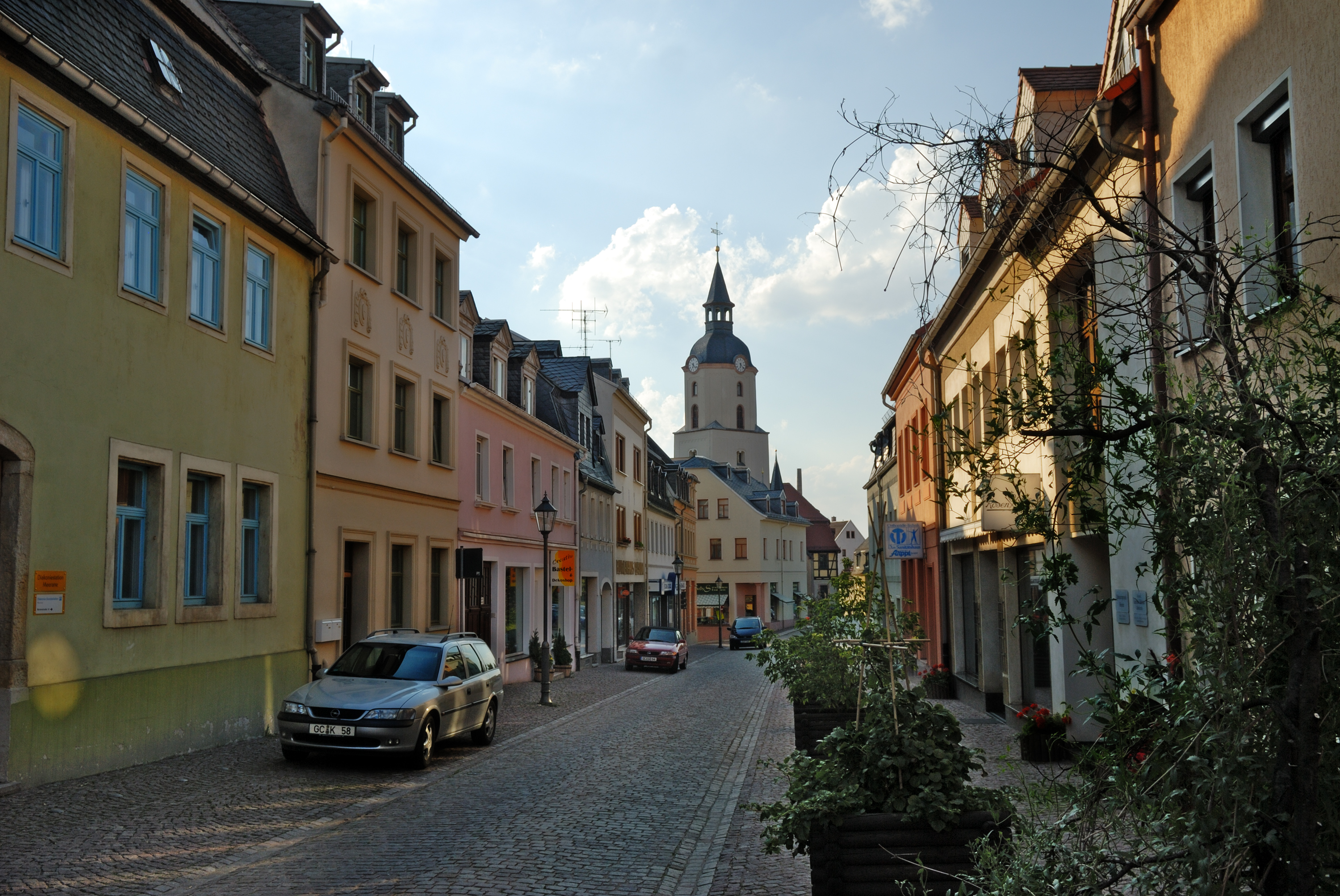 This image shows the street Marienstraße in Meerane, Germany.